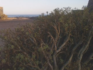 The spurge Euphorbia regis-jubae which endemic to the Canary islands